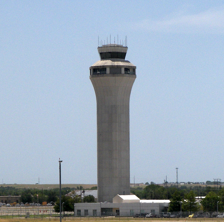 The Austin-Bergstrom International Airport control tower located in Austin, Texas, United States.